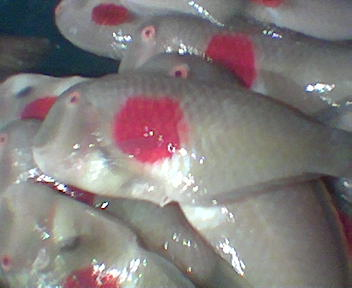 A pile of Xyrichtys twistii from a local market in Pasig City, Metro Manila, Philippines.